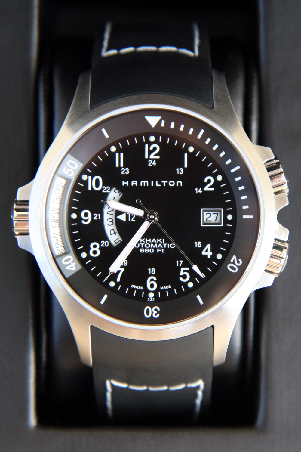 Hamilton Khaki Navy GMT watch.